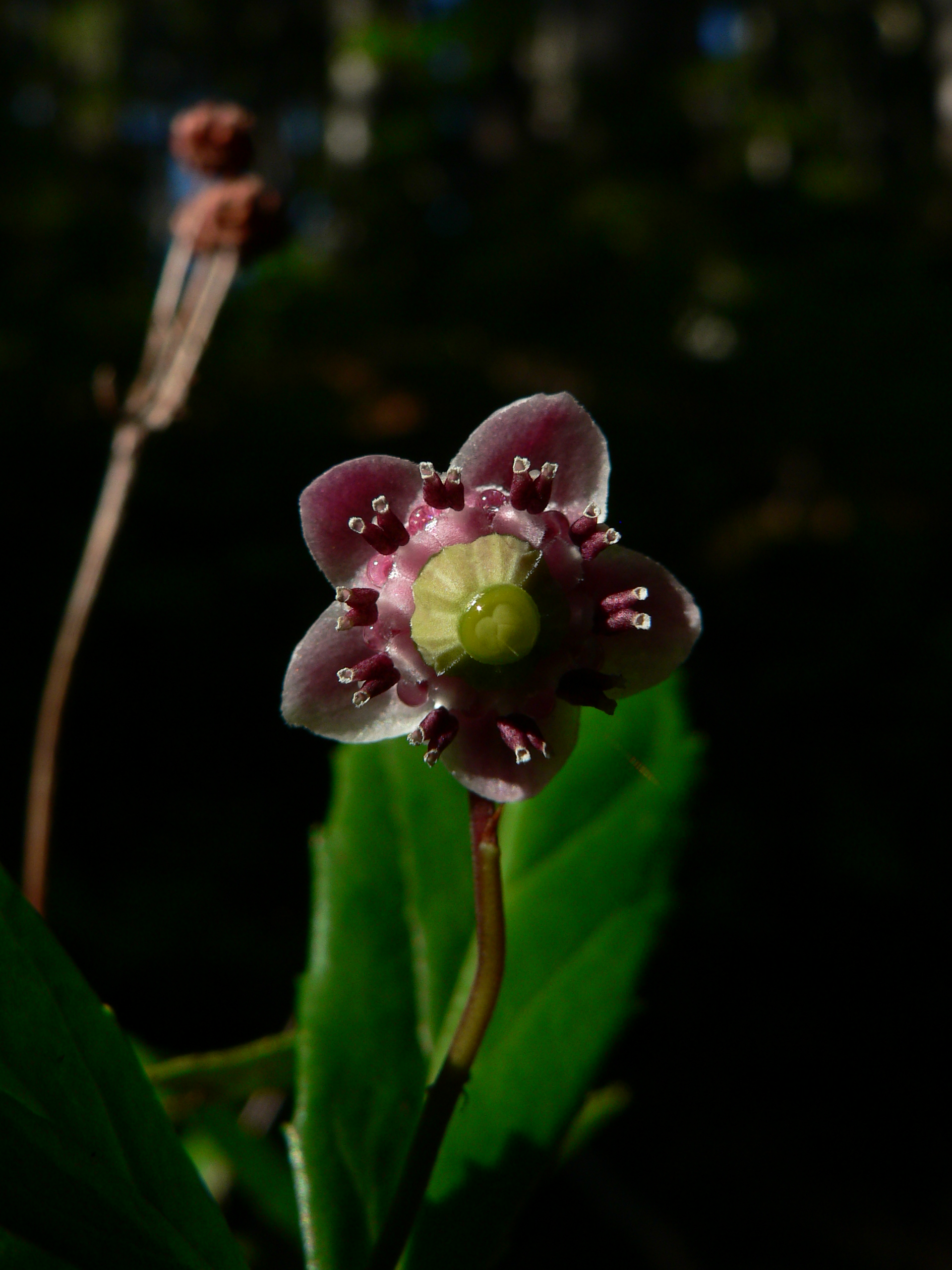 Pipsissewa